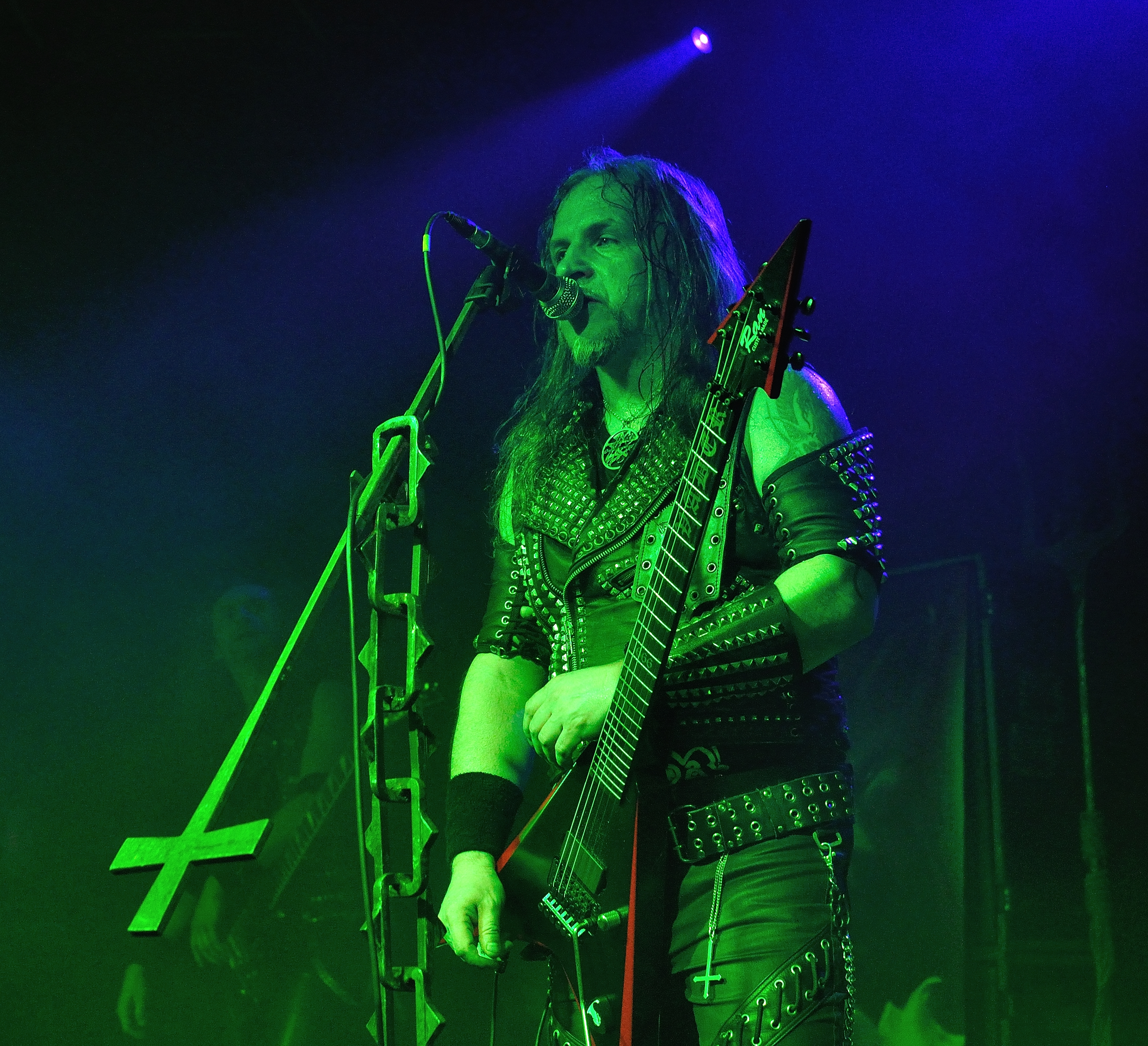 Vader at Hatefest 2015 in Berlin.